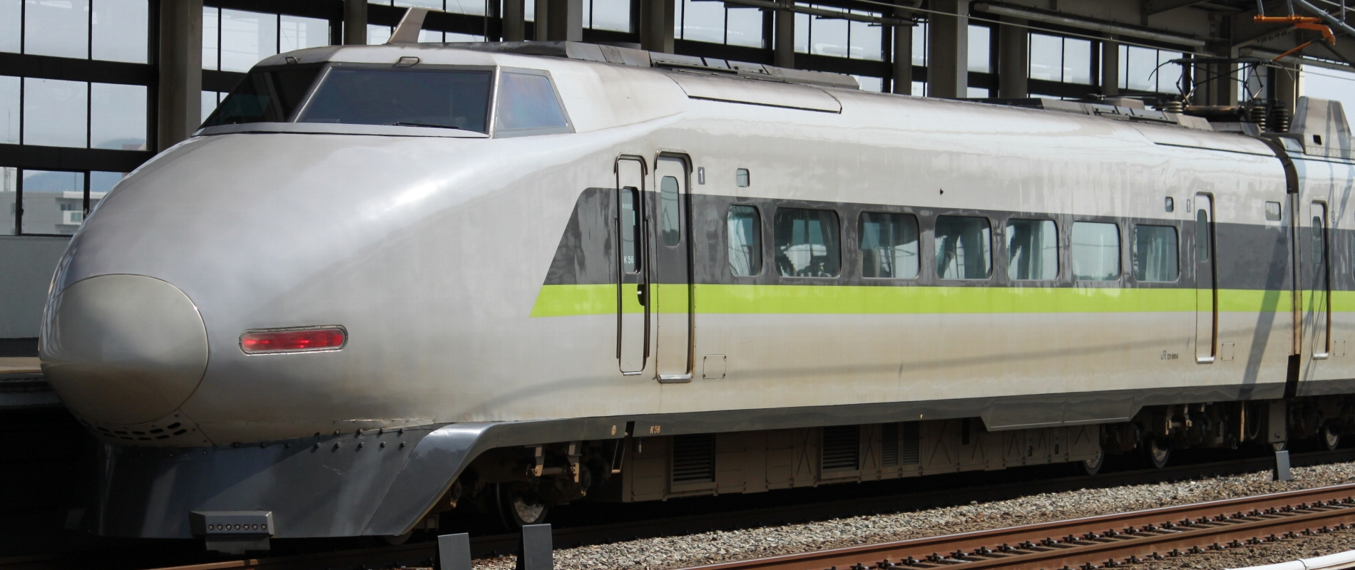 Shinkansen series 100(121-5004) in Himeji Station